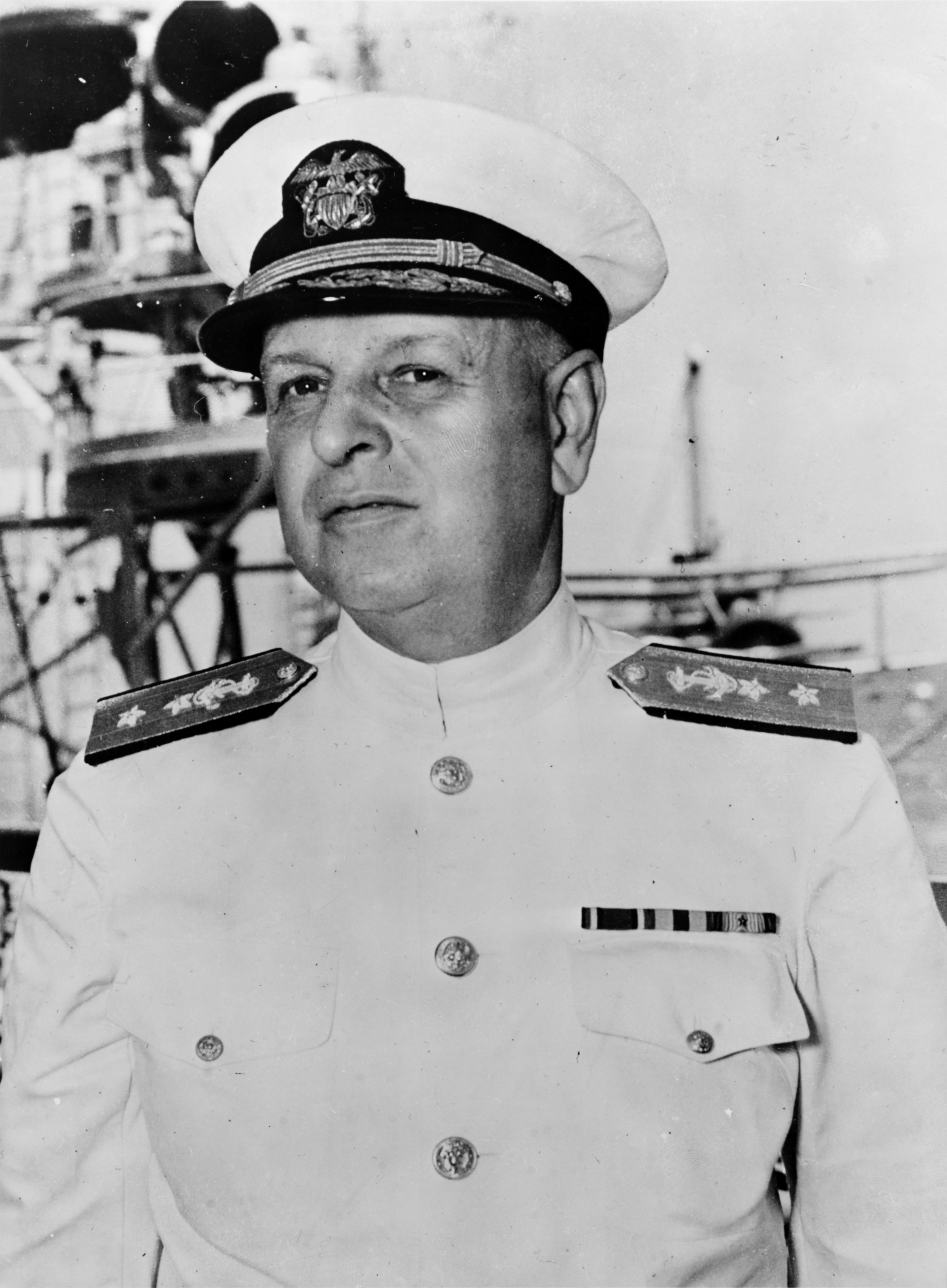 Rear Admiral Husband E. Kimmel in 1939, probably on board his flagship, USS San Francisco.